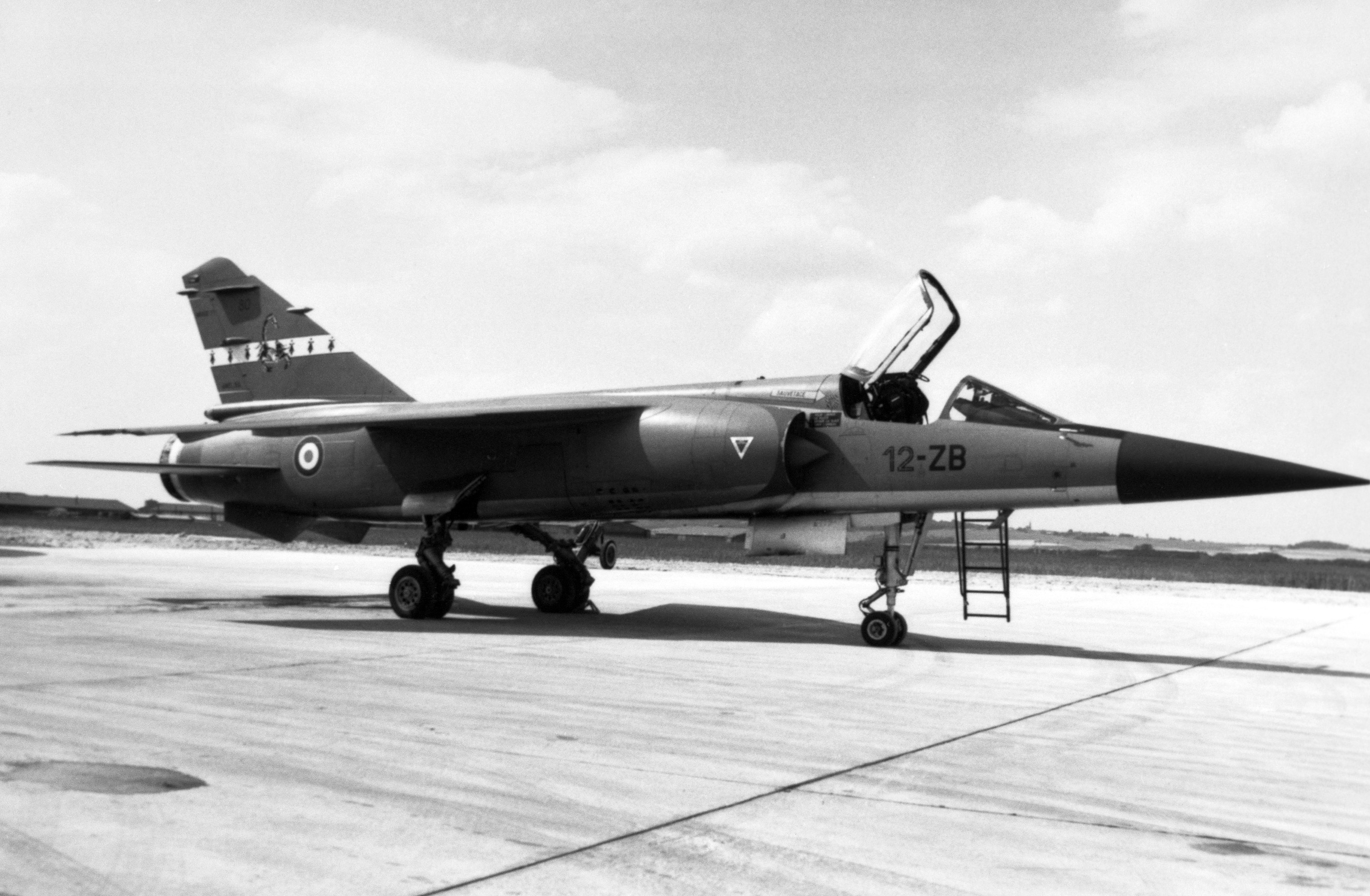 A right front view of a French air force Mirage F-1C aircraft of Escadron de chasse 3/12 Cornouaille parked on the flight line. Date Shot: 31 May 1986